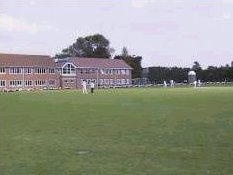 AGS Photo